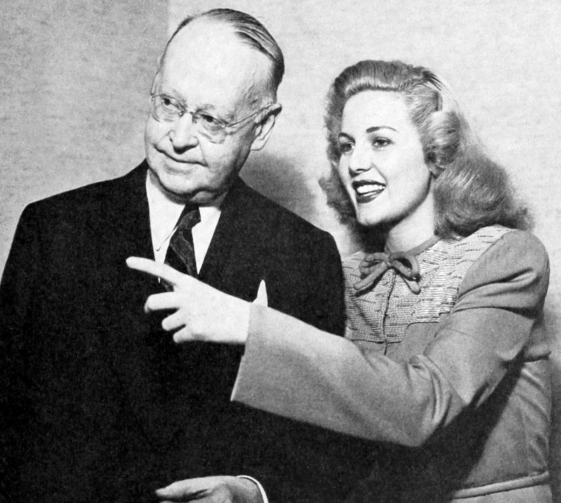 Photograph of film writer and critic Norbert Lusk and RKO Pictures contract player Rita Corday, part of a feature story by Lusk titled "I Love Actresses!"